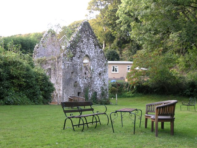 12th Century Norman Church Situated on the grounds of Penally Abbey Country House & Restaurant are the historic ruins of a 12th Century Church. I believe that this could well have been part of a larger monastic structure that occupied the land then.